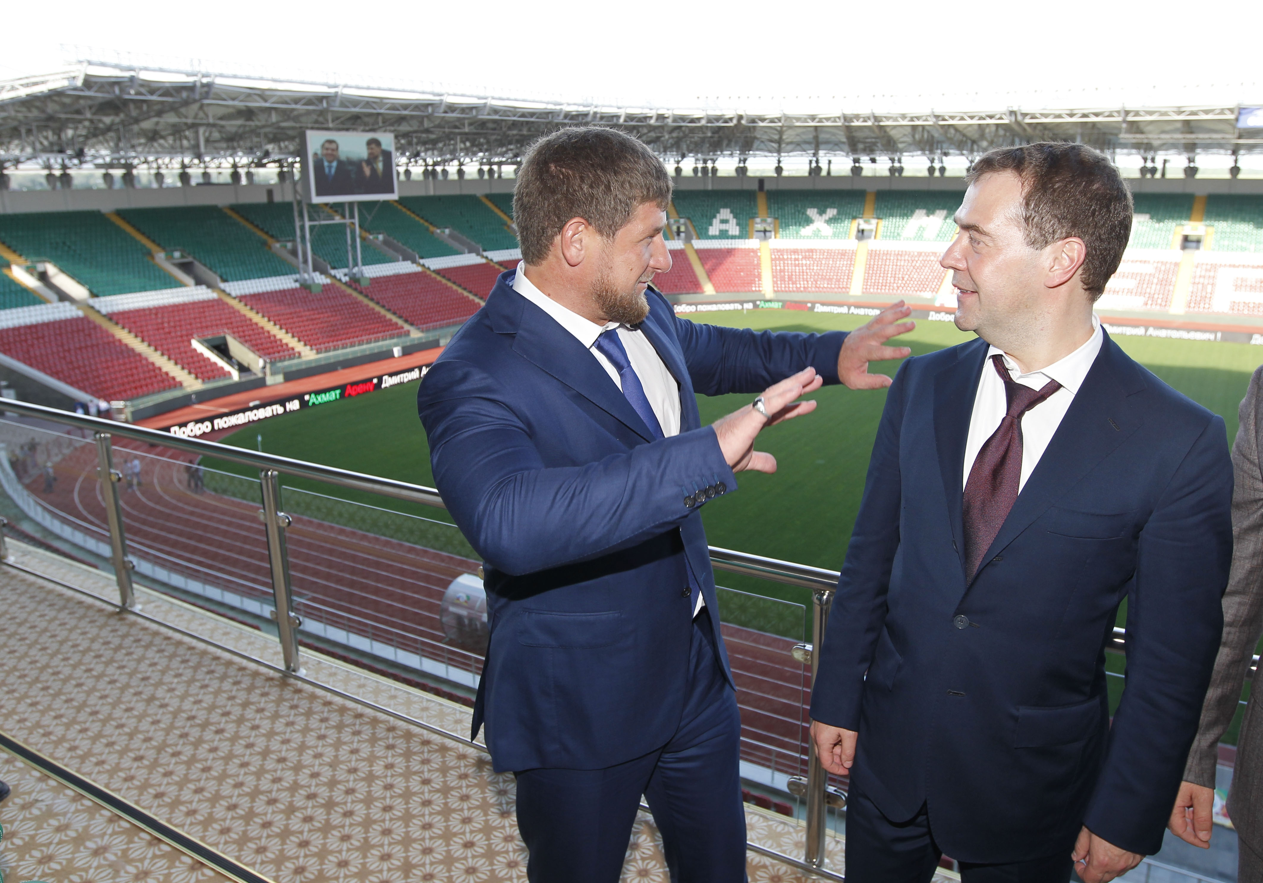 Head of the Chechen Republic Ramzan Kadyrov and Russian Prime Minister Dmitry Medvedev at the stadium Akhmat-Arena in Grozny, Chechen Republic.